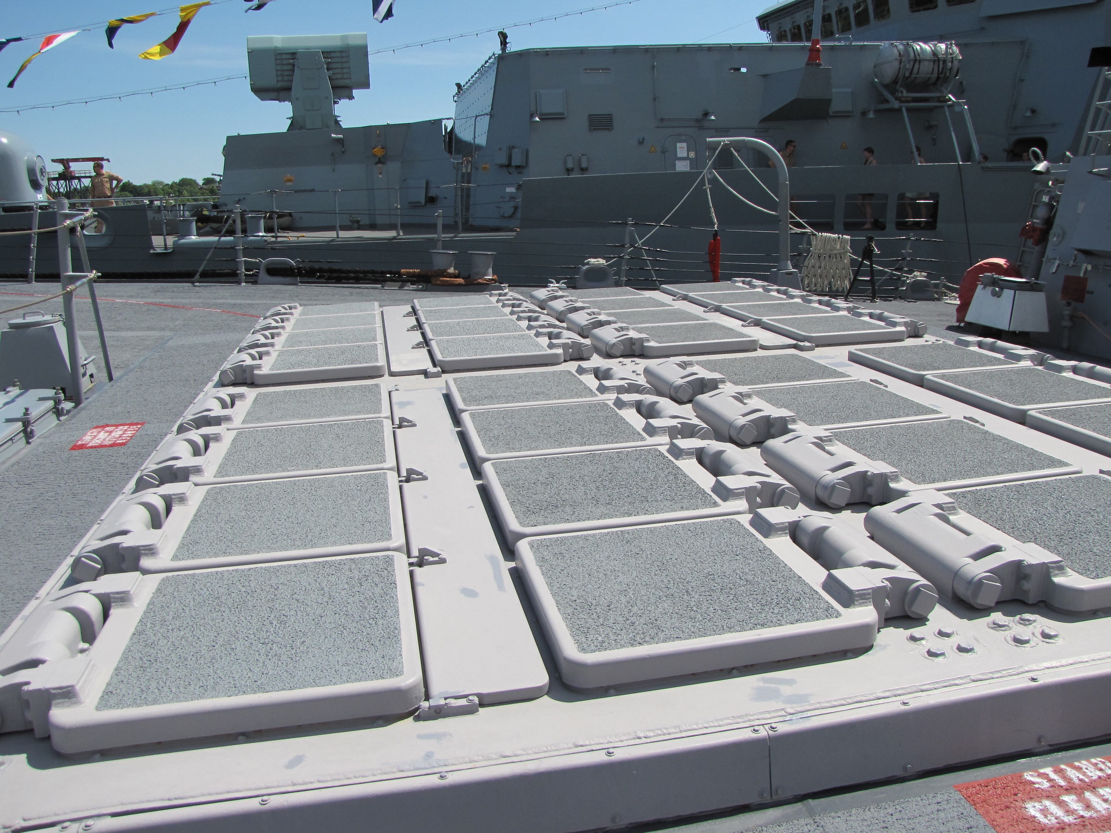 USS Gravely fore VLS. Picture taken during Fleet Week 2012 in Boston. The ship in the background is a German destroyer.